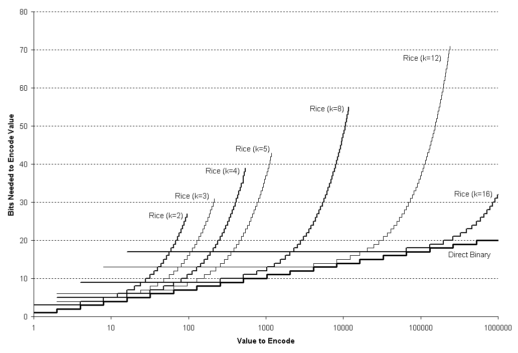 This image compares the Rice Encoding Scheme using various parameters. This image comes from a C program I wrote to output a table of bits used per integer value for various parameters in of Rice coding. The table was then filtered through Excel to arrive at this image.